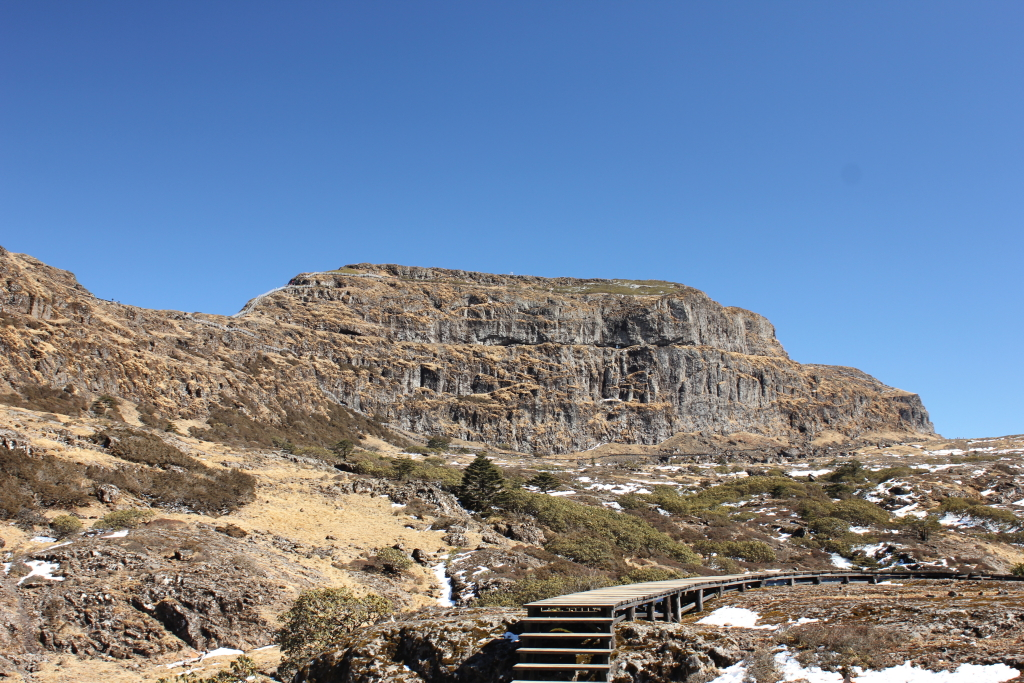 a south view of the main peak of jiaozi snow mountain